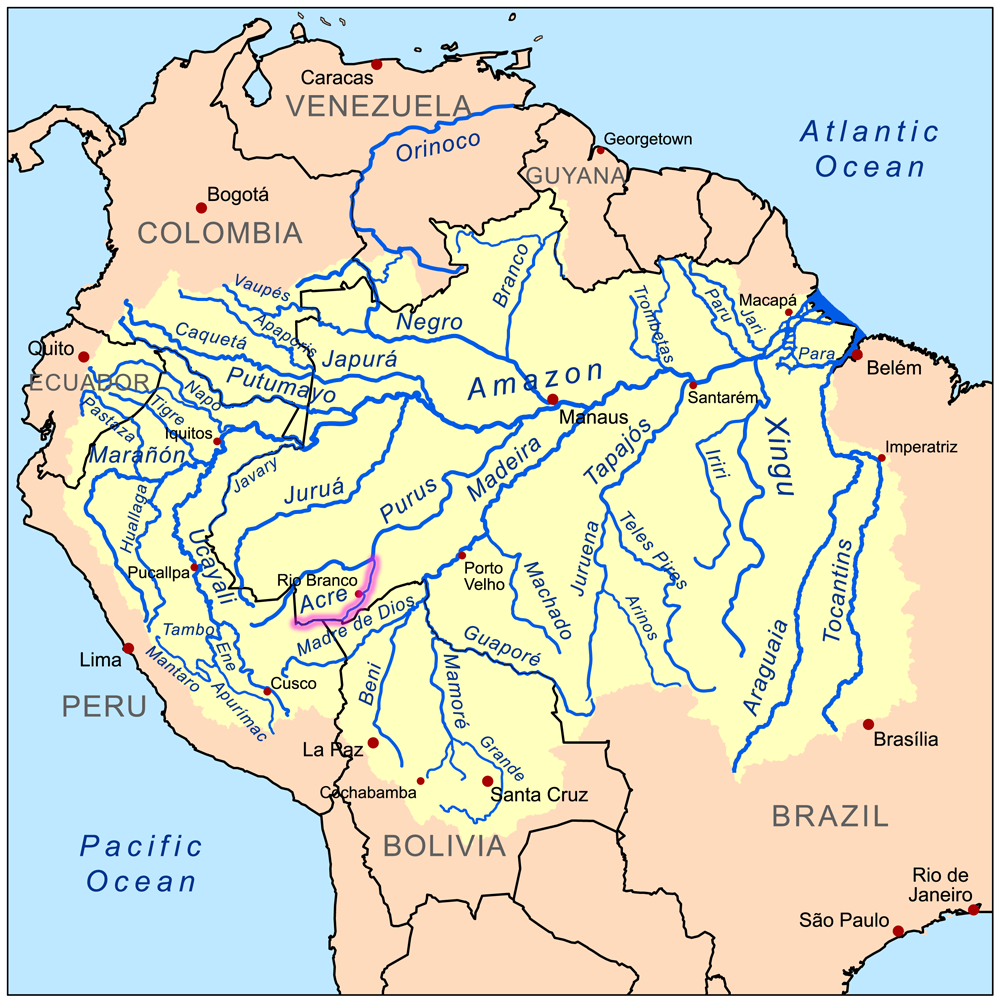 This is a map of the Amazon River drainage basin with the Acre River highlighted.